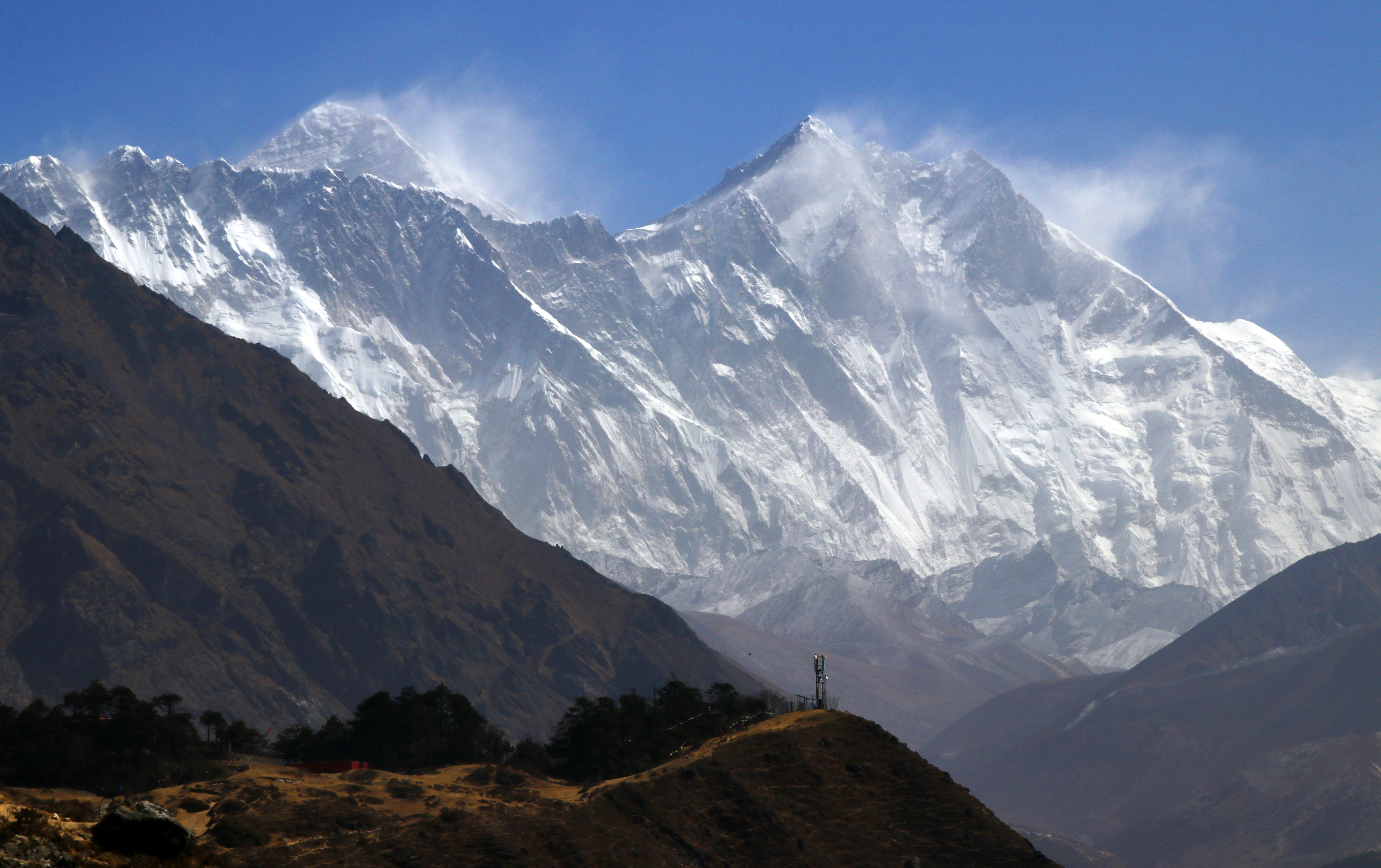 Namche Bazaar. Mount Everest and Lhotse seen from Syangboche Panorama Hotel.